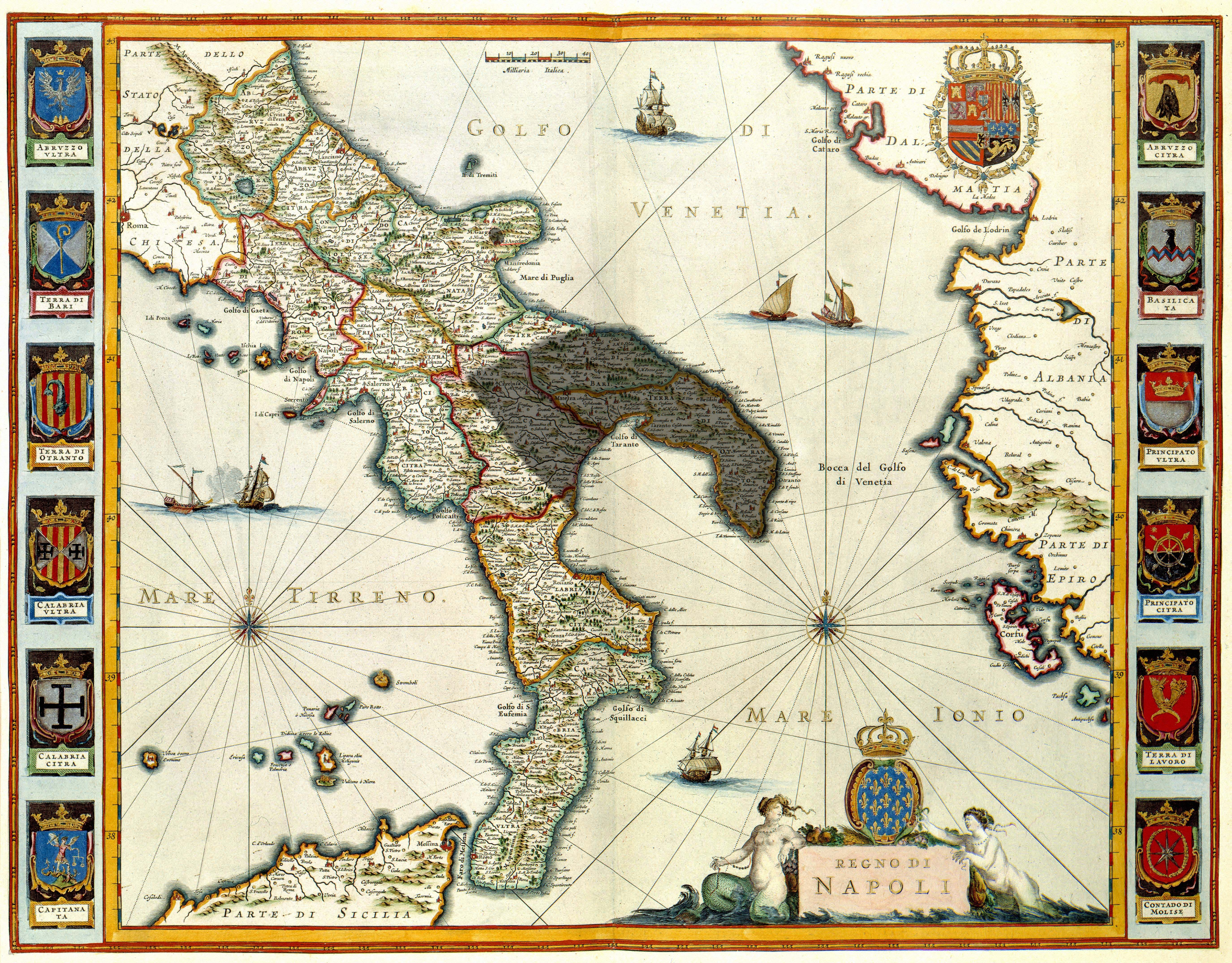 Approximate position of the Principality of Taranto in 1250 (in grey)